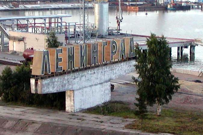 Photo of Saint Petersburg port entrance, taken August 2003 by User:Stan Shebs The Soviet-era sign still reads "Leningrad".